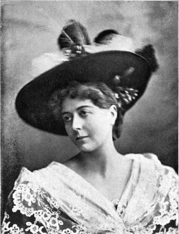 Ethel Brilliana Tweedie F.R.G.S. (1862–1940) was a prolific English author, travel writer, biographer, historian, editor, journalist, photographer and illustrator.